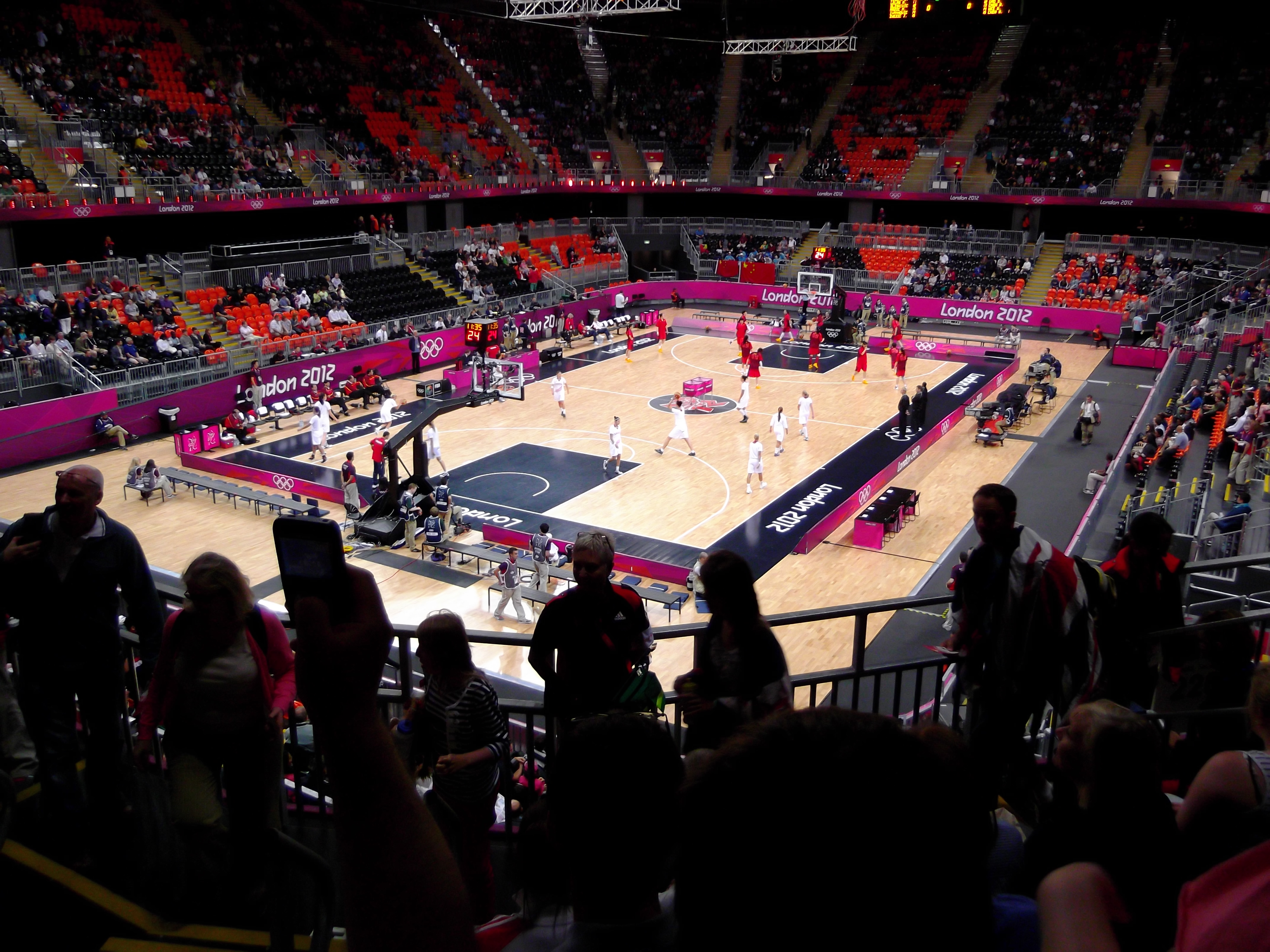 London 2012 Olympics 058 Basketball Arena (15)